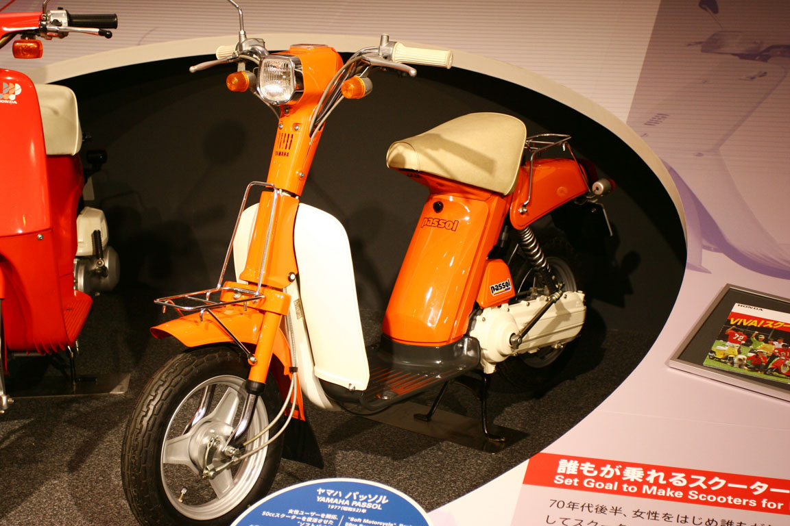 YAMAHA PASSOL S50 photographed in Honda Collection Hall.